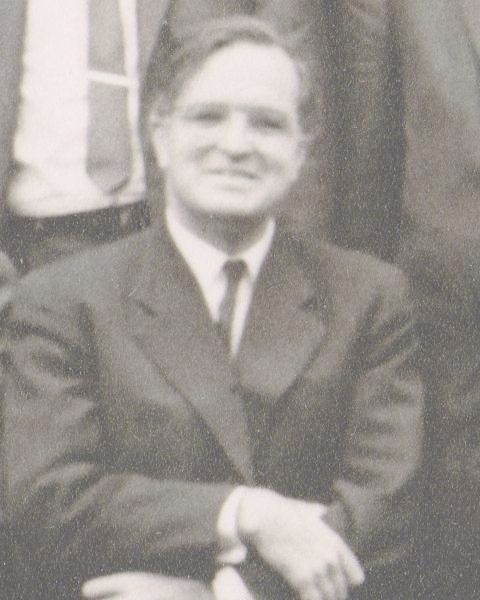 Physicist Aage Bohr, 1963 at Copenhagen